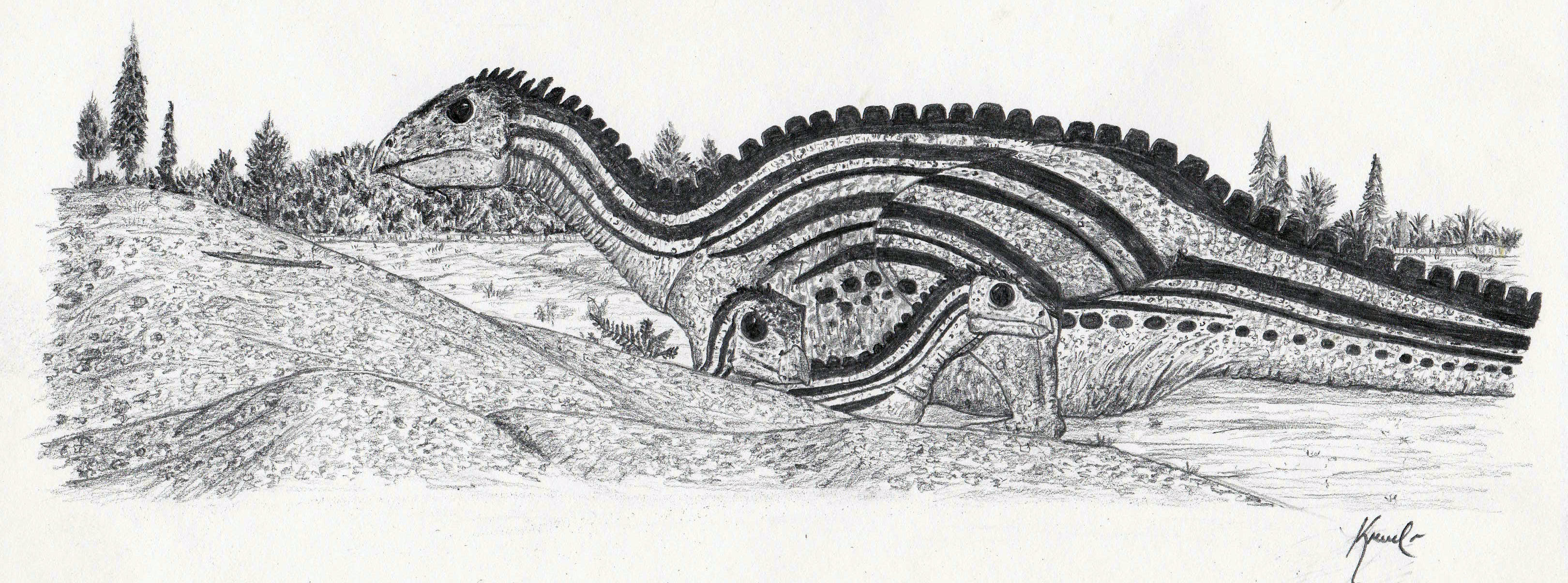 My self made image of Oryctodromeus family on Wayan floodplains.